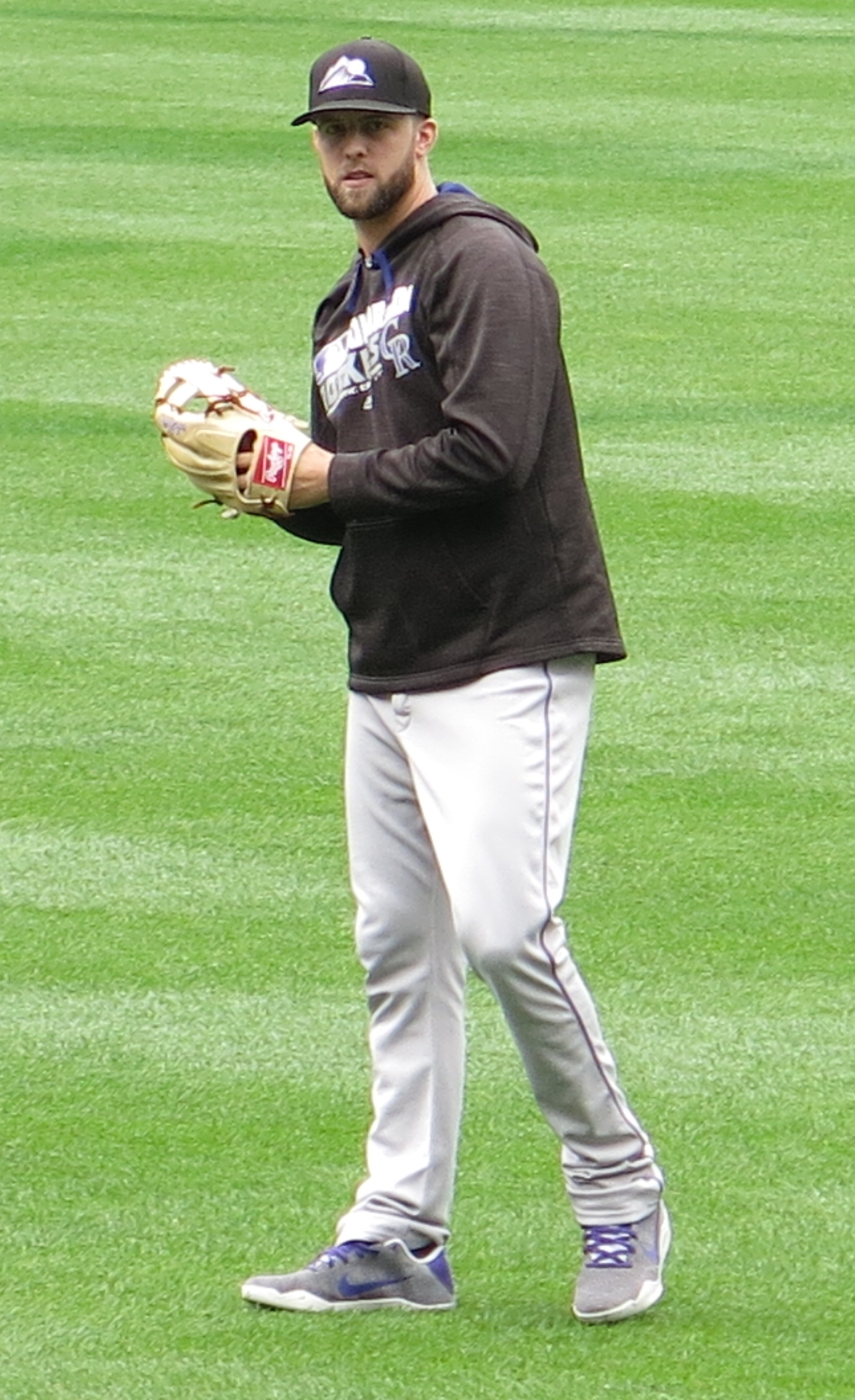 Jordan Lyles of the Colorado Rockies, July 31, 2016.